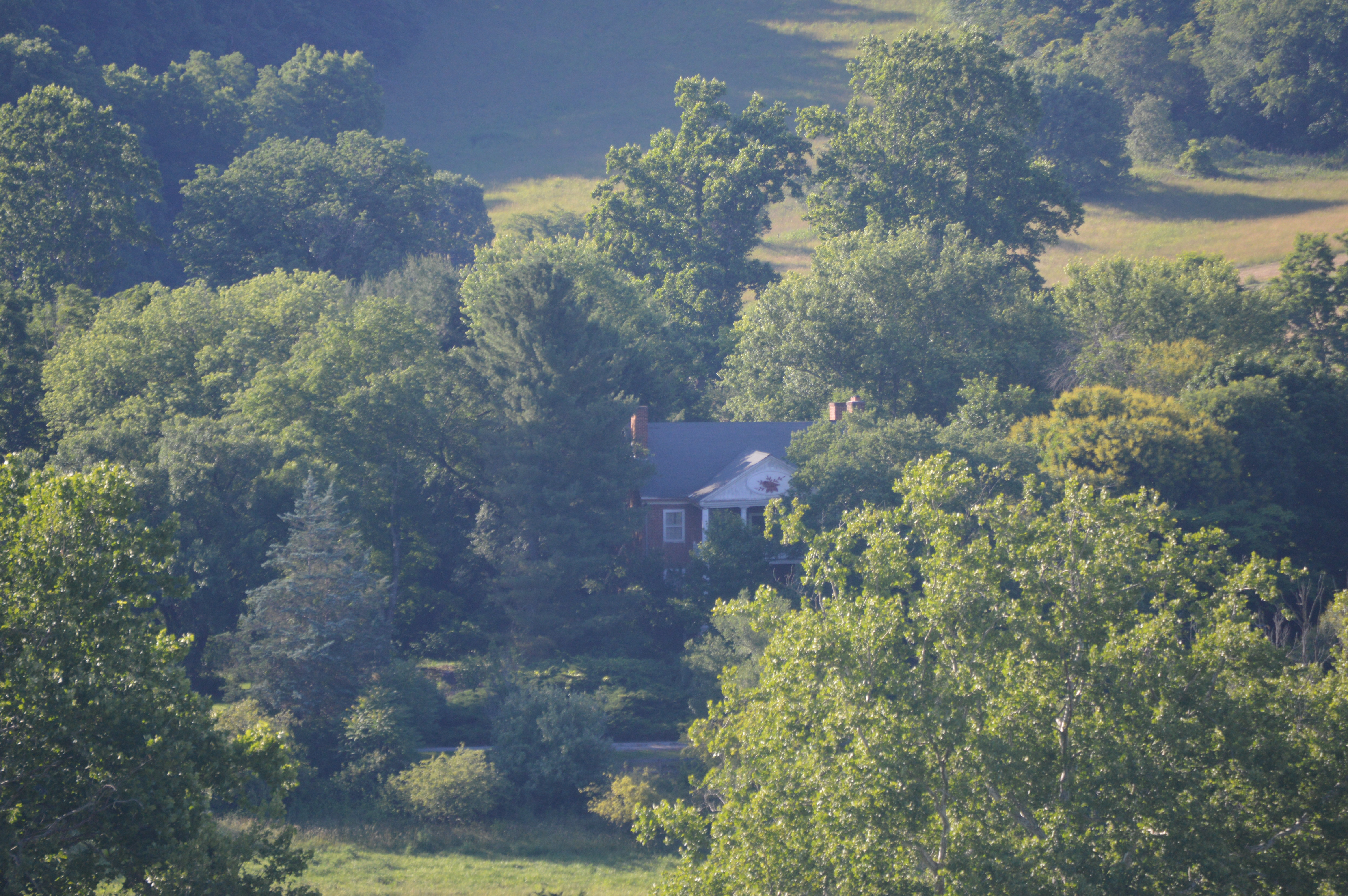 Roadside view (from the south) of Hickory Hill, located off Forge Road northwest of Glasgow in Rockbridge County, Virginia, United States. Built in 1824, it is listed on the National Register of Historic Places.